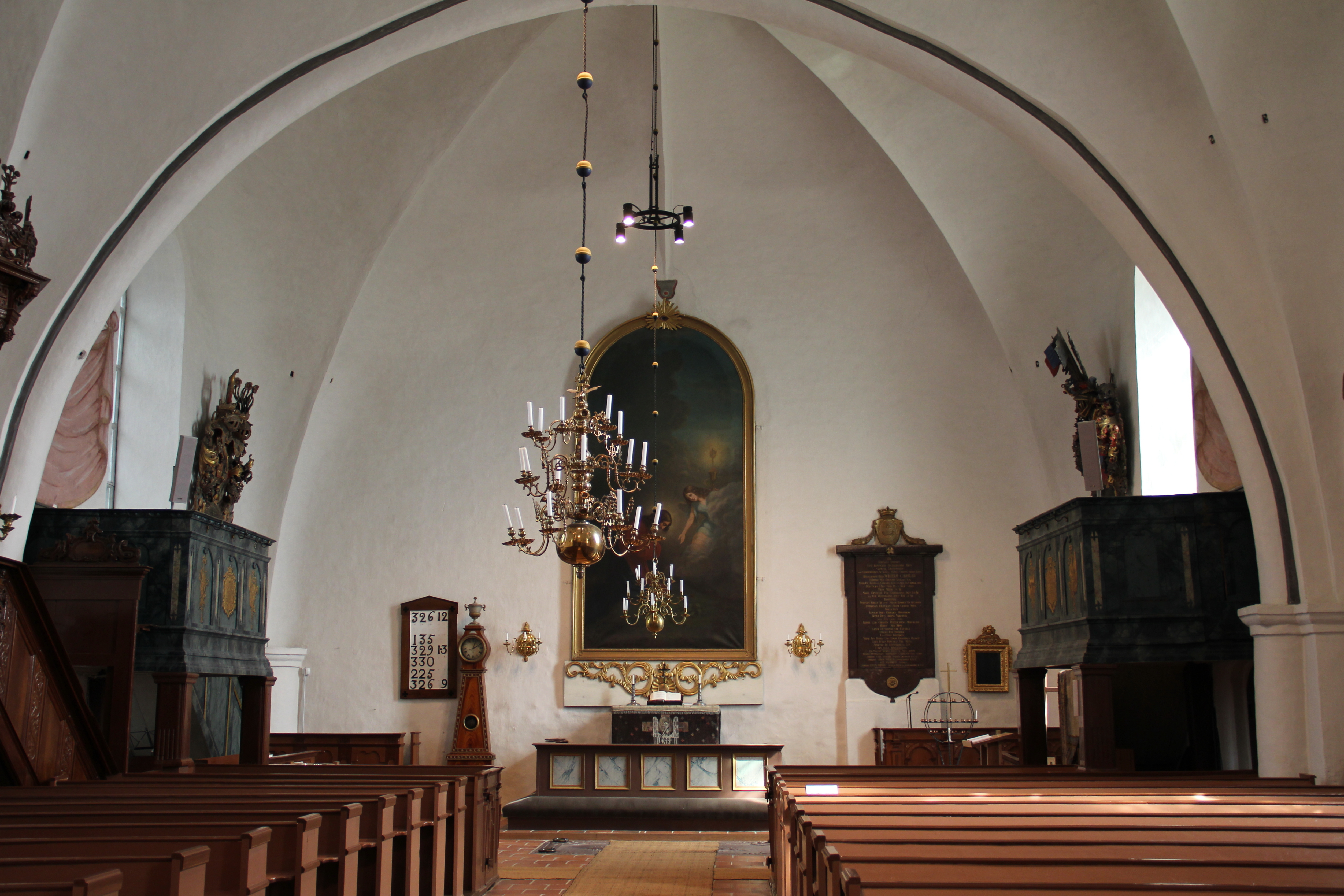 Askainen church, Askainen, Masku, Finland. - Altar wall.